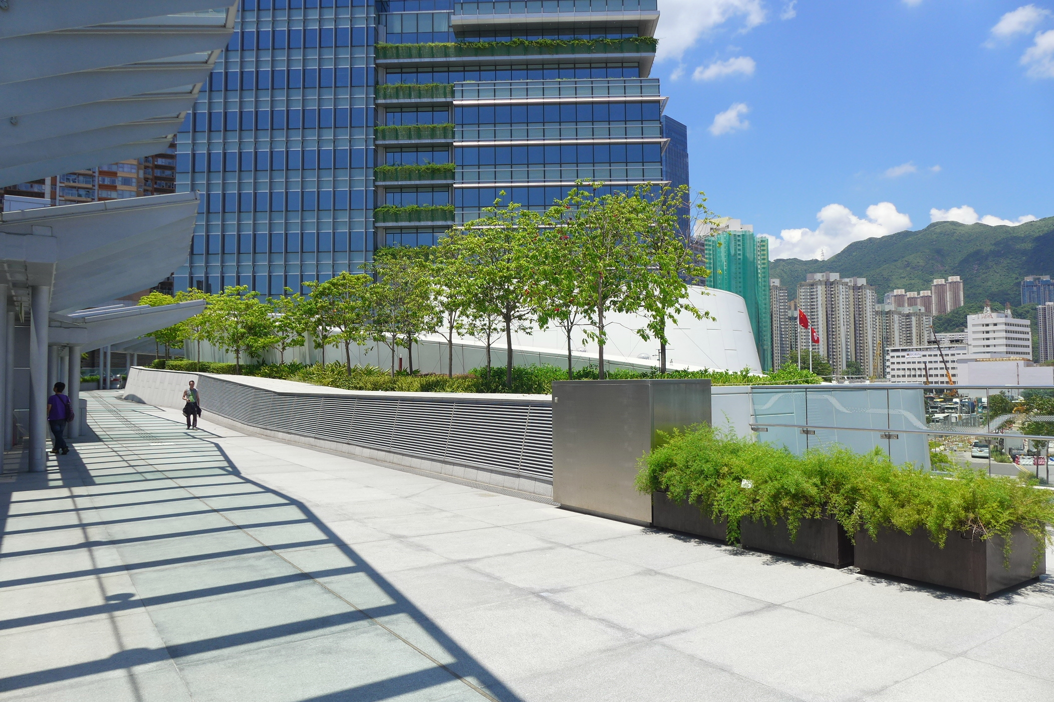 Trade and Industry Tower